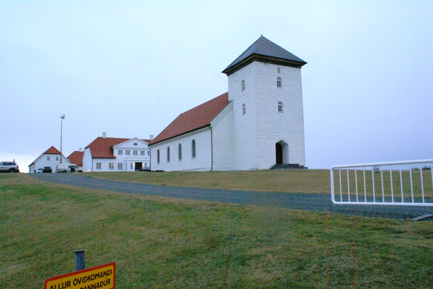 Bessastakirkja, Álftanes Location: 64°06'21N 21°59'44W Bessastaðir is the official residence of the President of Iceland and is situated on Álftanes, not far from the capital city, Reykjavík. Álftanes is a low-lying peninsula which extrudes from the eastern part of Reykjanes, located in Iceland's Greater Reykjavík Area. Álftanes has a population of 2,455 as of July 1, 2008 census.